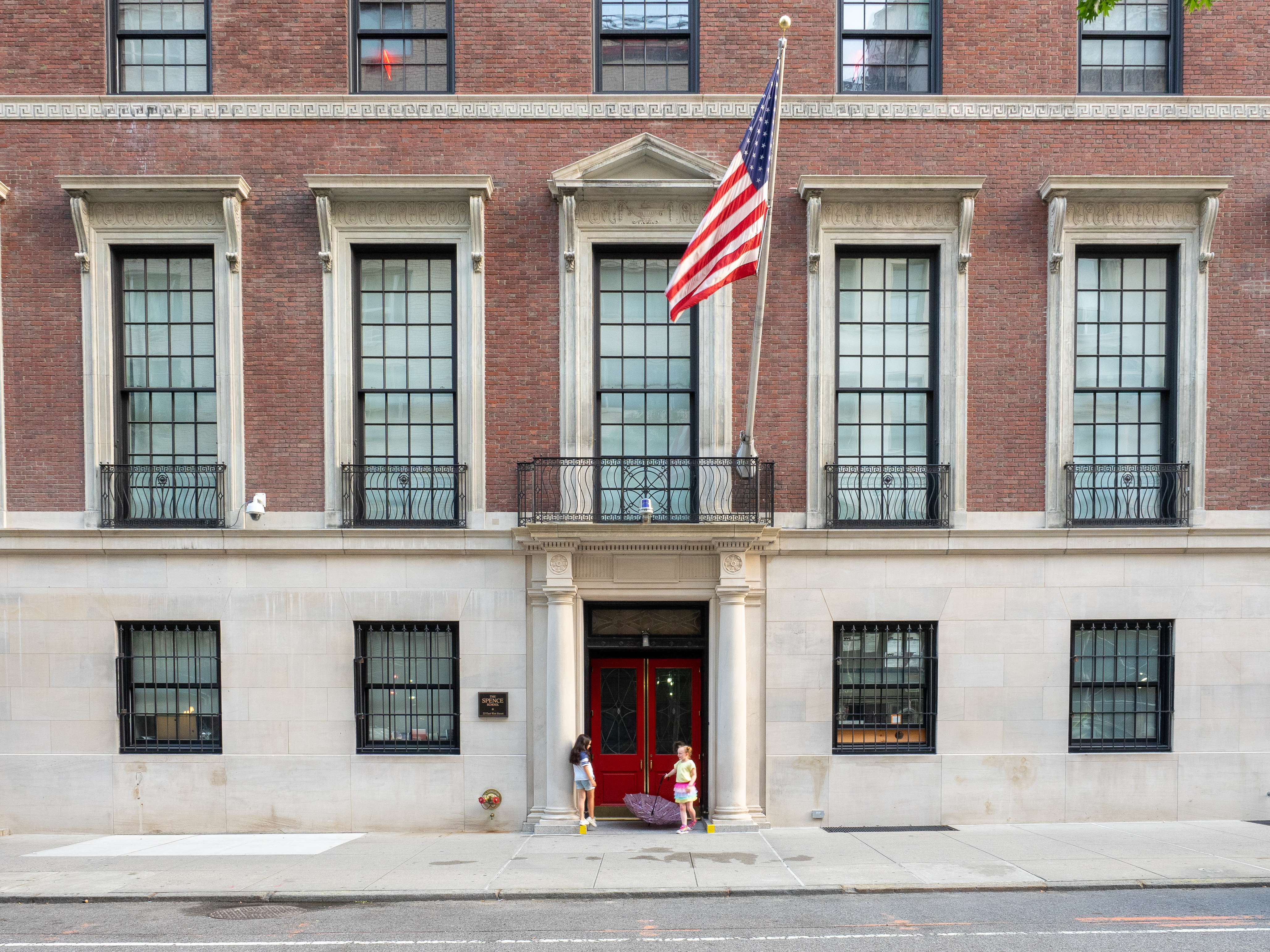 Upper East Side, Manhattan, New York